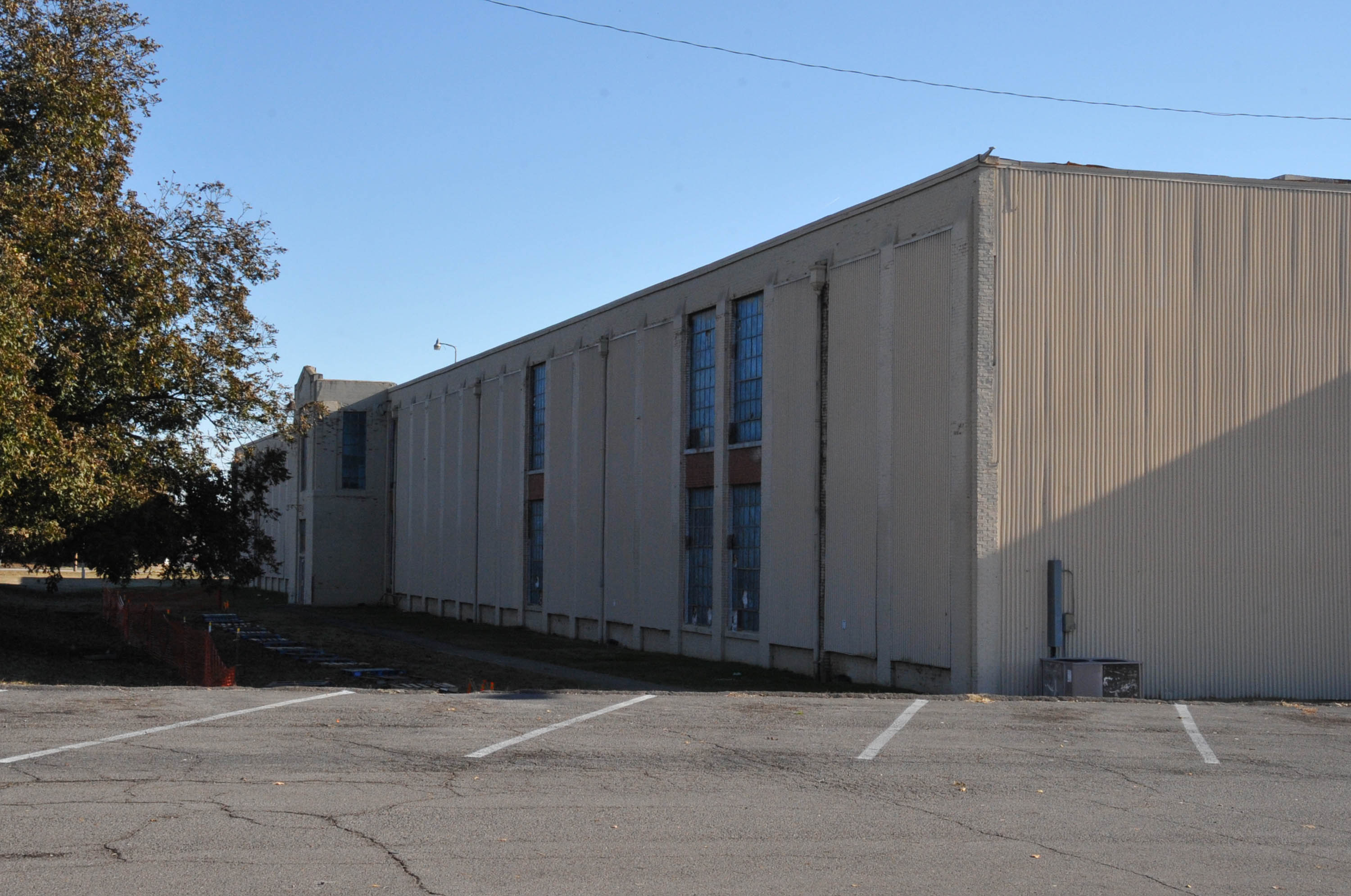 1928 TEXTILE MILL; ORIGINALLY THE FRONT HAD MULTIPLE GLASS WINDOWS FROM GROUND TO ROOF FOR THE FULL LENGTH OF THE FRONT OF THE BUILDING. THE PROJECTING TOWER IN THE MIDDLE SERVED AS A STAIR WELL AND THE ENTRANCE